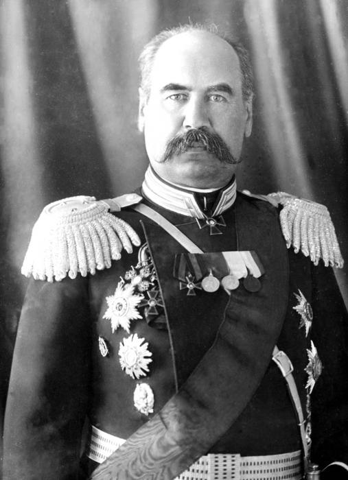 Pavel Unterberger